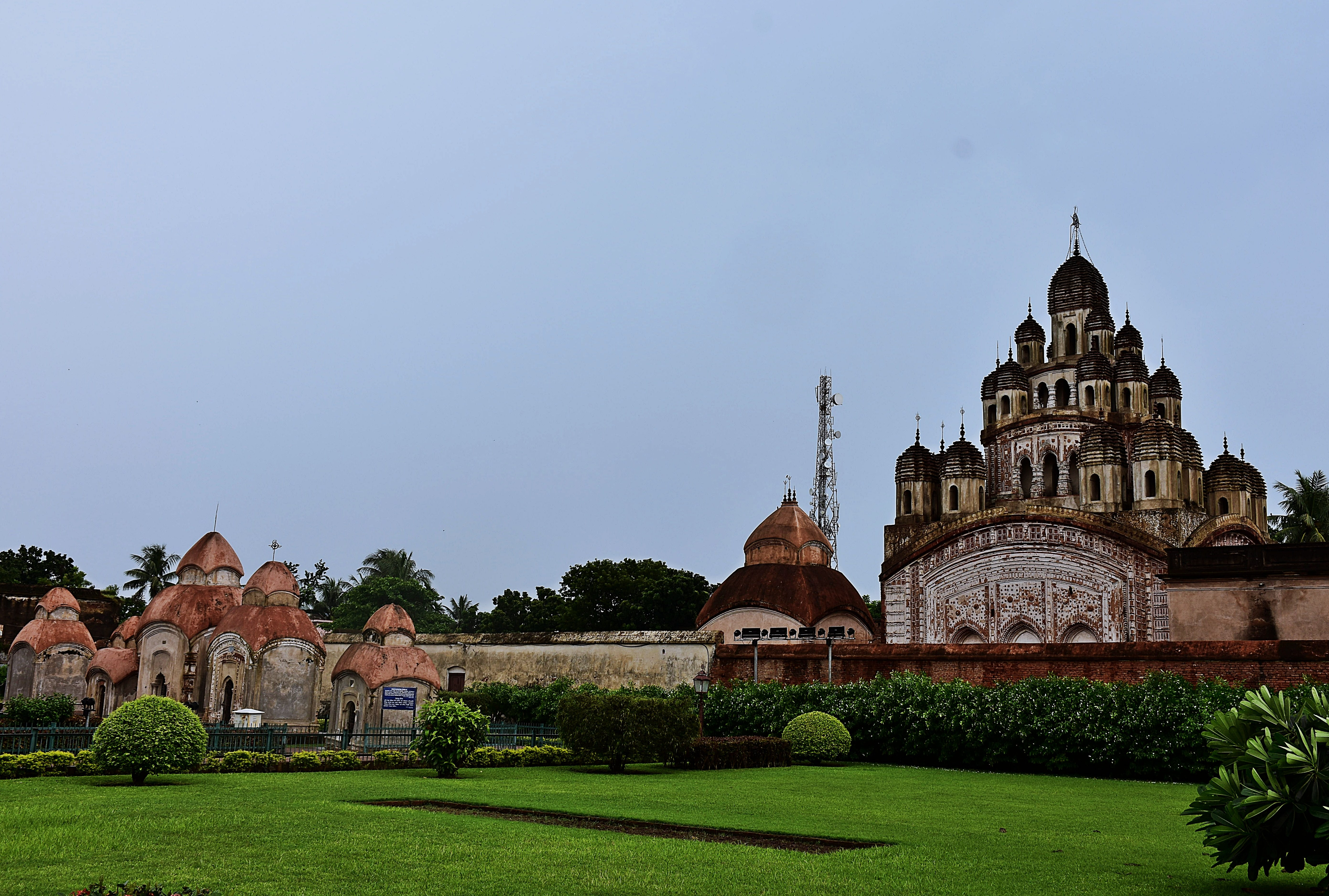 Group of temples (12 nos. temples) (i) Bijoy Vaidyanath Temple (ii) Giri Gobardhan Temple (iii) Gopalji Temple, (iv) Jaleswar Temple (v) Krishna Chandraji Temple (vi) Lalji Temple, (vii) Nava-Kailasha Temple (viii) Pancharatna Temple (ix) Pratapeswar Siva Temple in Rajbari compound (x) Rameswar Temple, (xi) Ratneswar Temple (xii) Rupeswar Temple